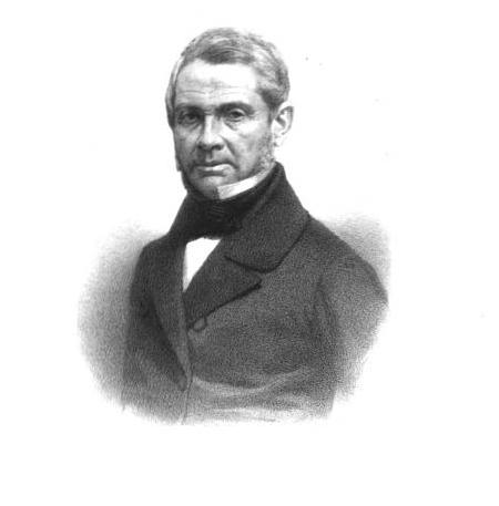 Low resolution scan of José Antonio Saco's photograph, as it appeared in the book "Biografías de Cubanos distinguidos" by Pedro Agüero, and which was published in 1860 by Trübner y ca.